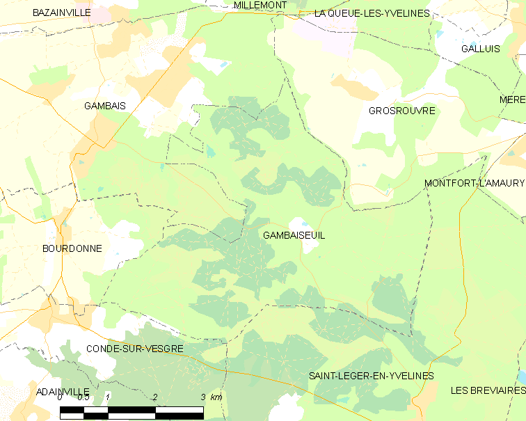 Map of French municipality Gambaiseuil